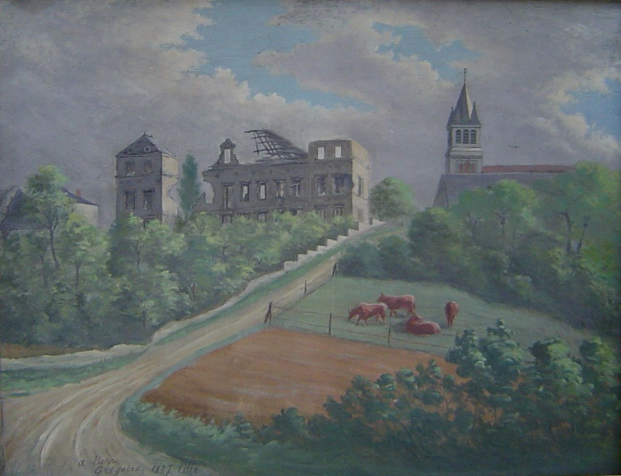 Painting of the castle in Ville, Oise after the destruction of the First World War, painted by Léon Grégoire (1861-1933) in 1927.